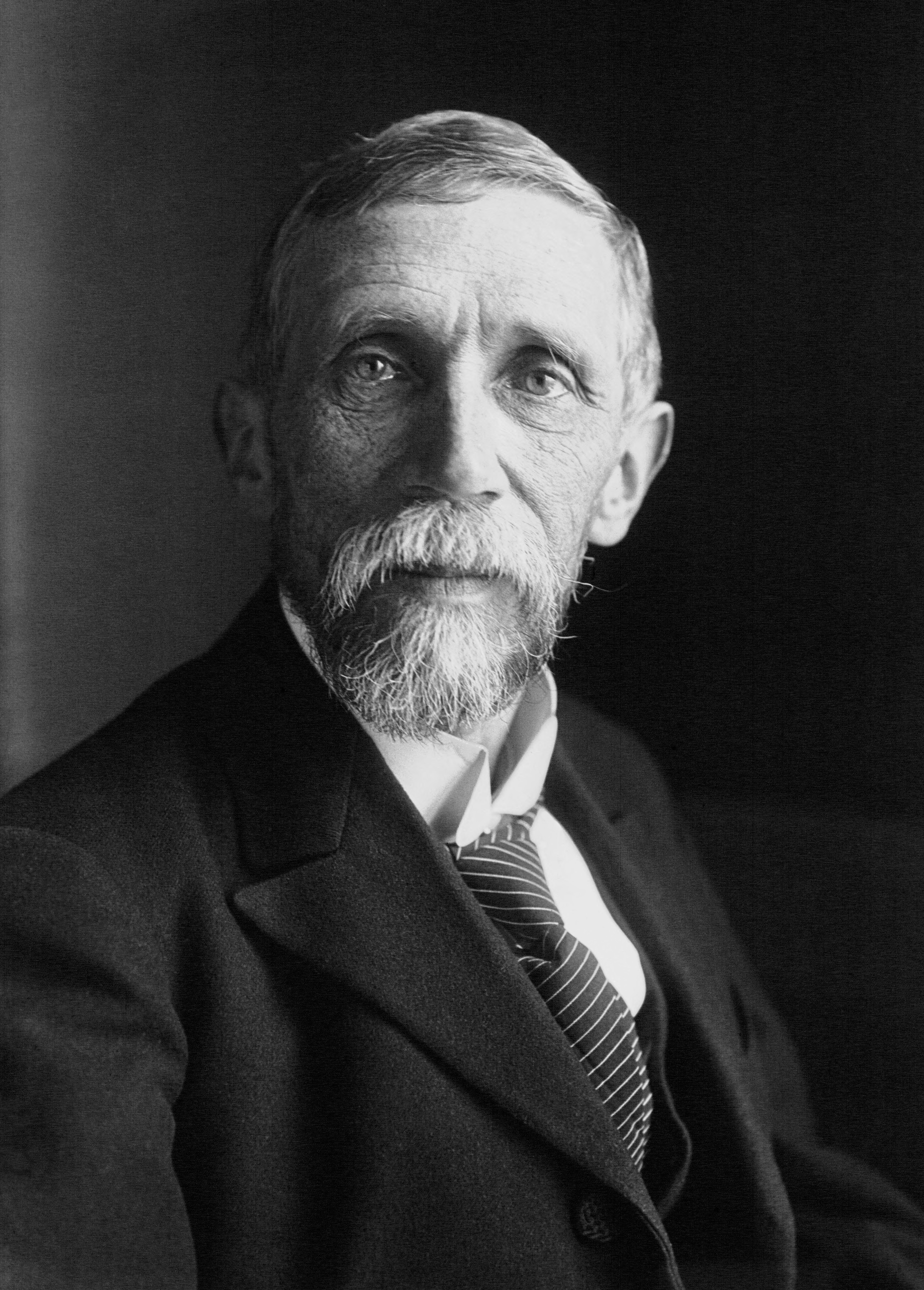 Georges Goyau (1869-1939), French historian and essyist. Picture taken in 1922. Glass negative, restored and cropped print.